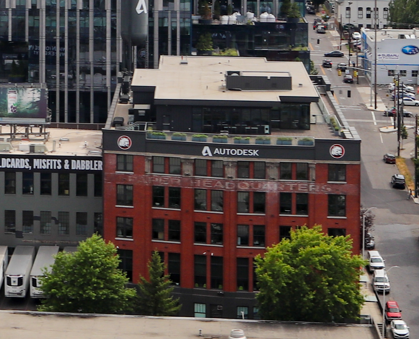 Towne Storage building in Portland Oregon, 2020. Home to Autodesk.